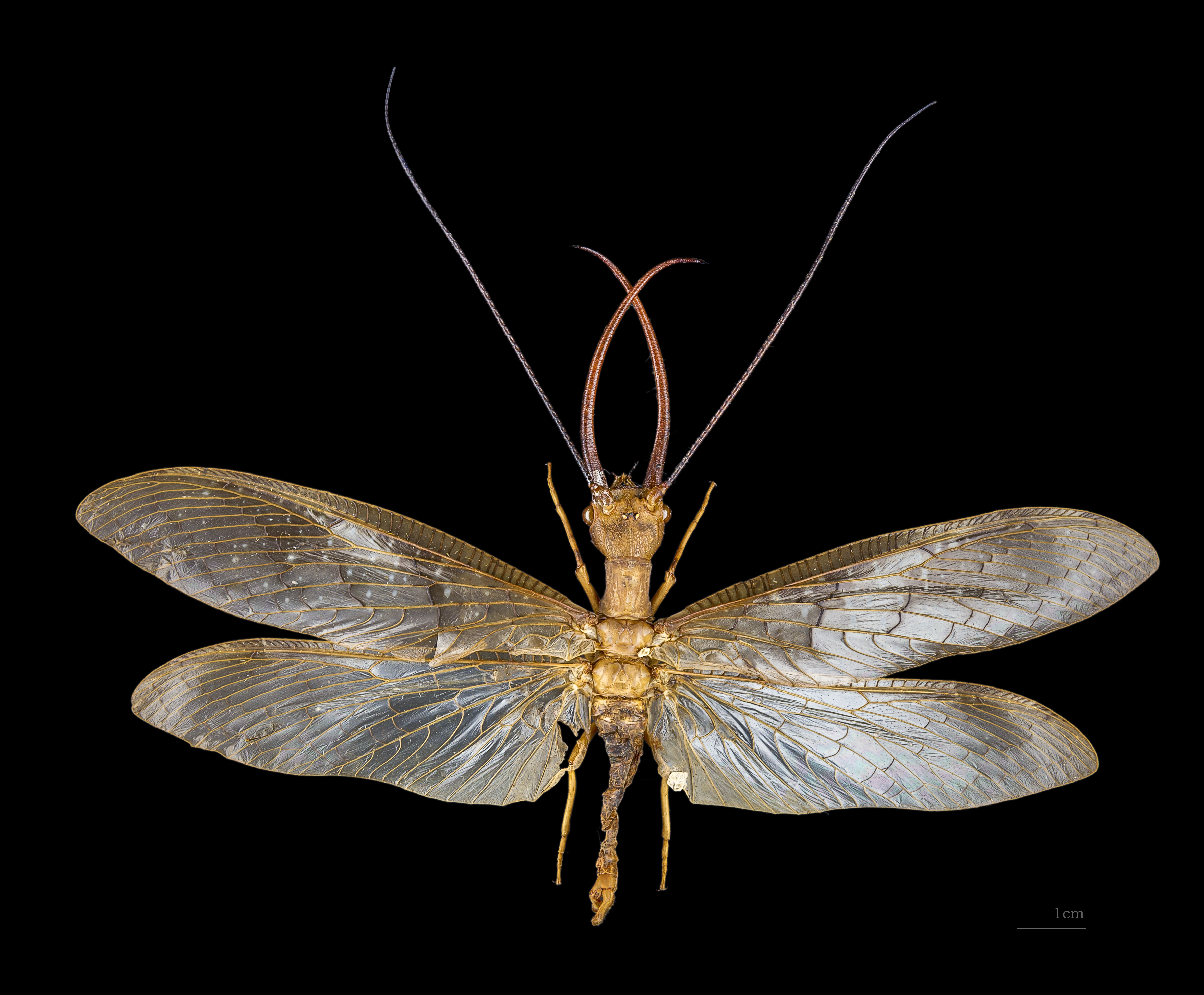 Eastern Dobsonfly - Dorsal side